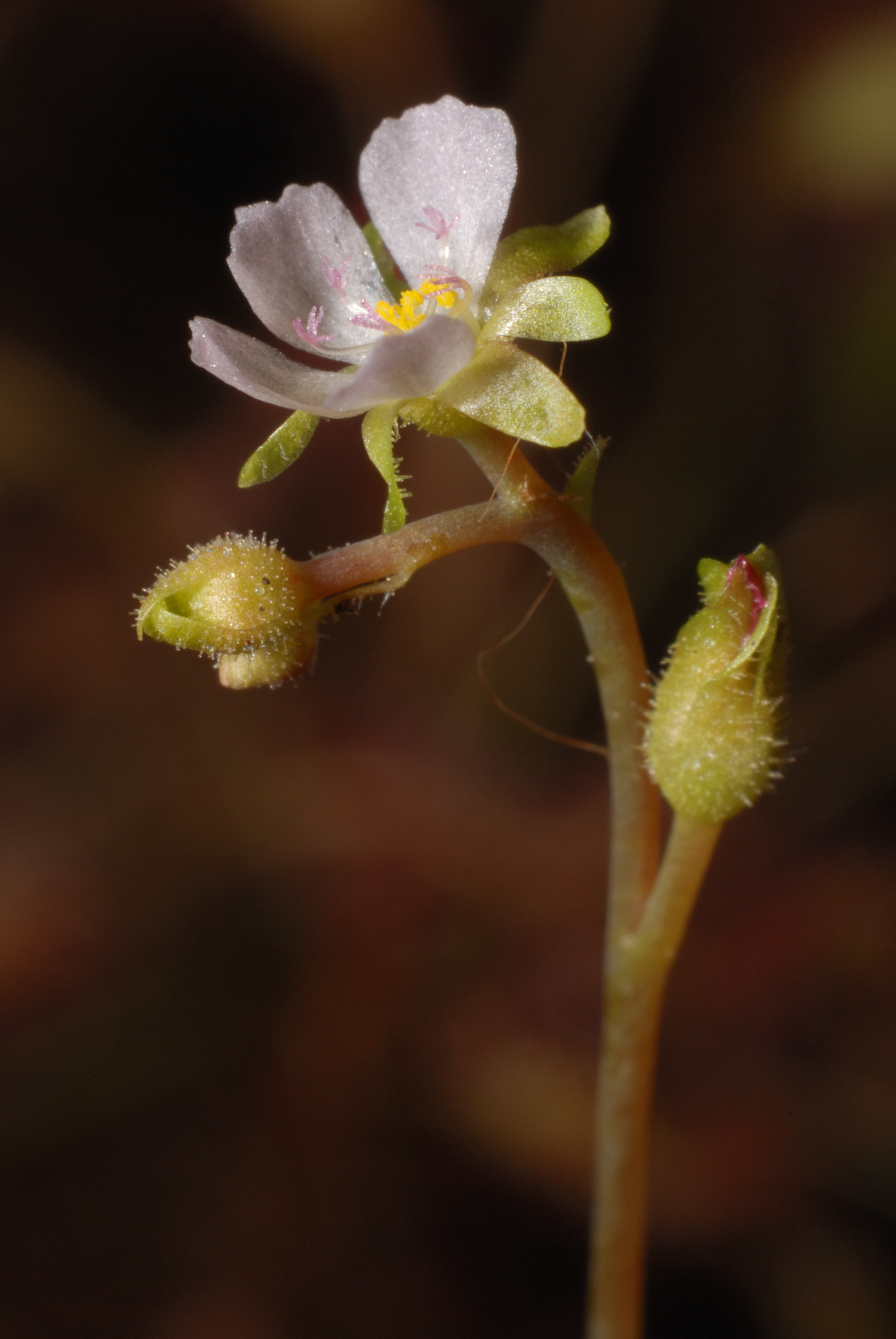 Drosera sessilifolia